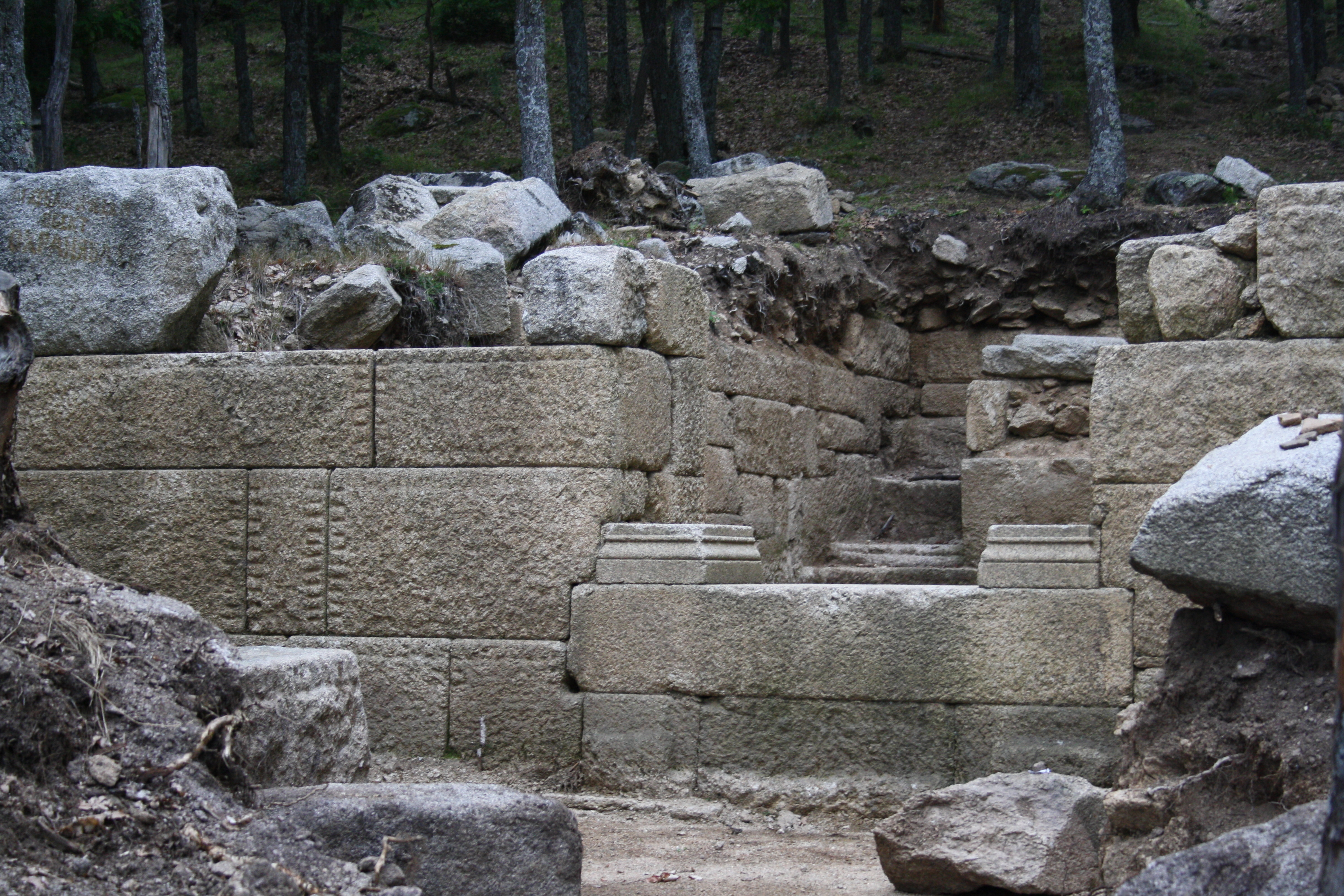 Kozi Gramadi, near Starosel